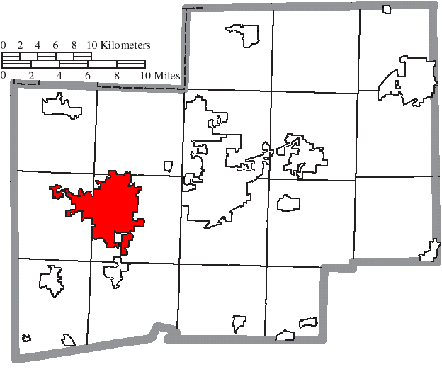 Map of the municipal and township boundaries of Stark County, Ohio, United States, as of the 2000 census, with the location of the city of Massillon highlighted. Township borders are shown only in unincorporated areas in order to differentiate incorporated and unincorporated areas more clearly.